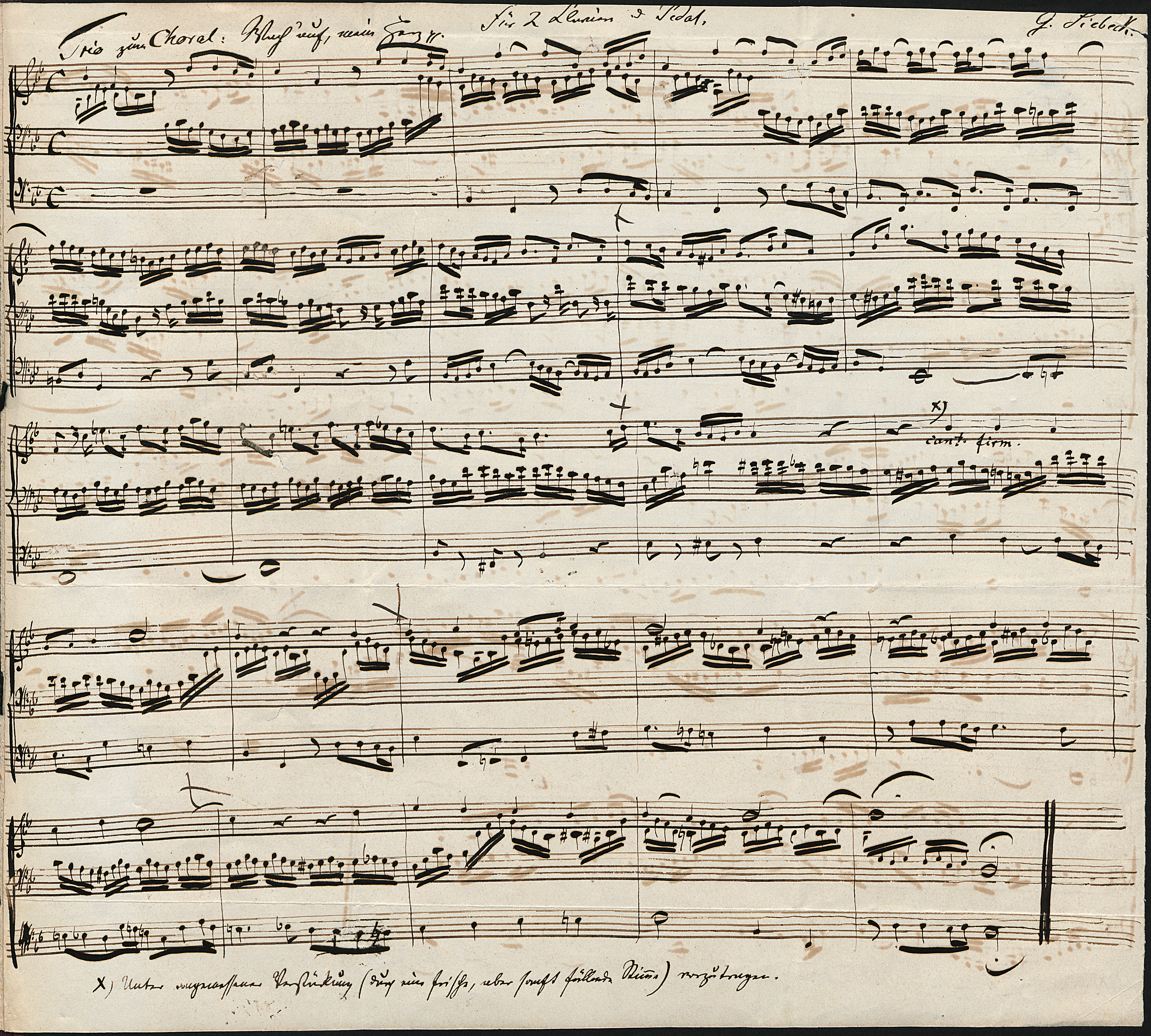 Trio for organ by Gustav Siebeck